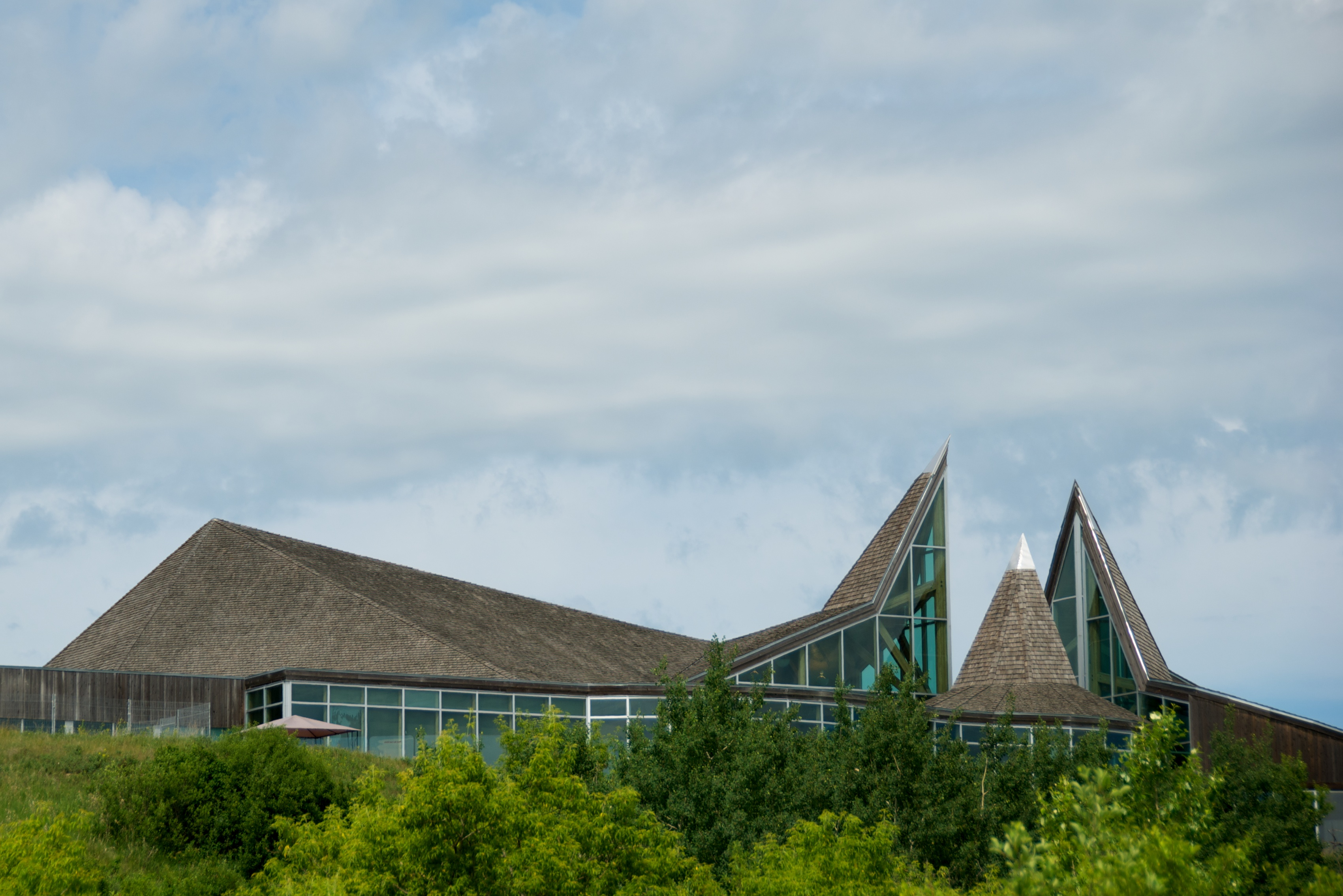 Wanuskewin National Historic Site of Canada main museum building from riverbank.